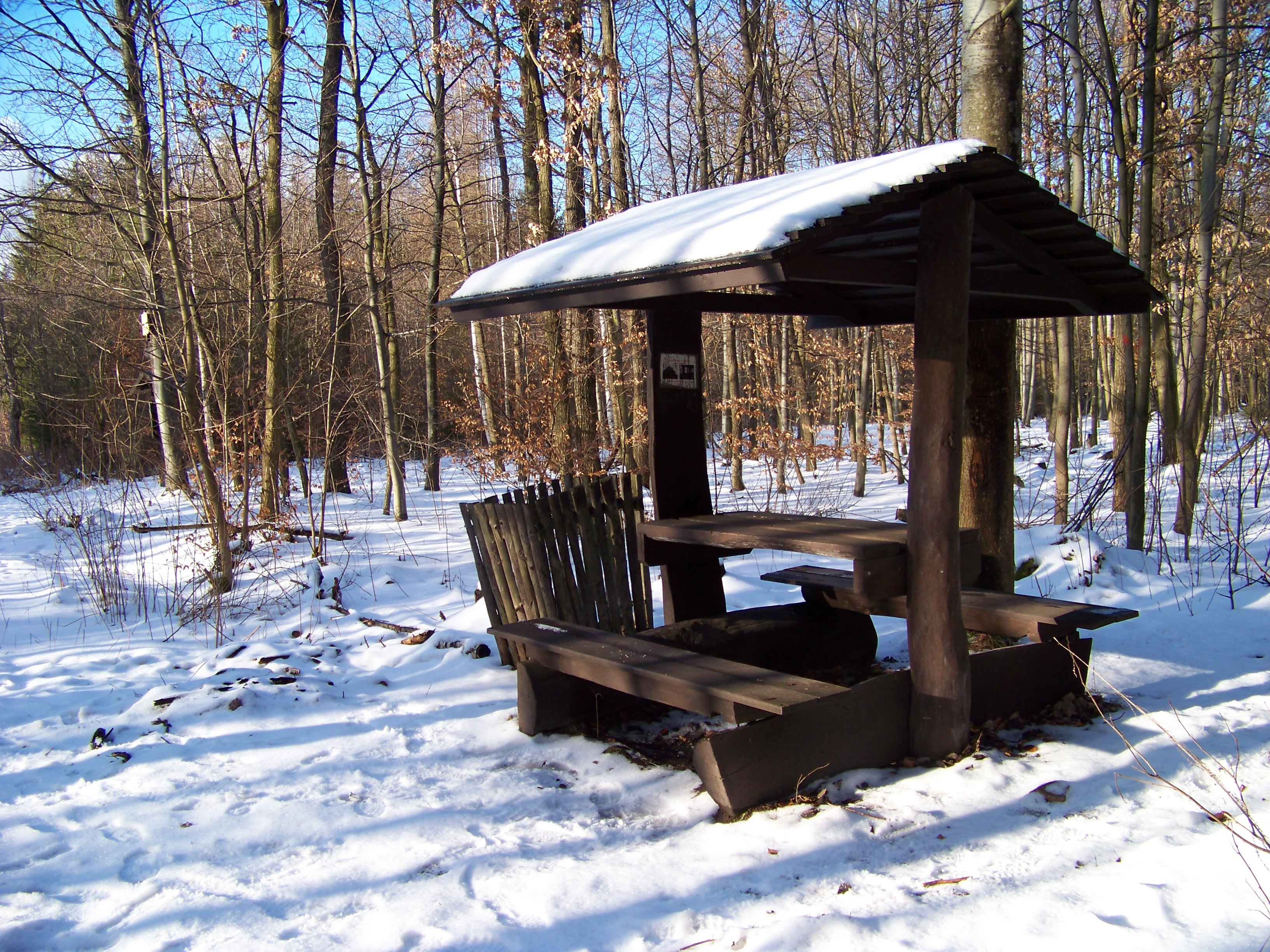 Domoušice, Louny District, the Czech Republic.